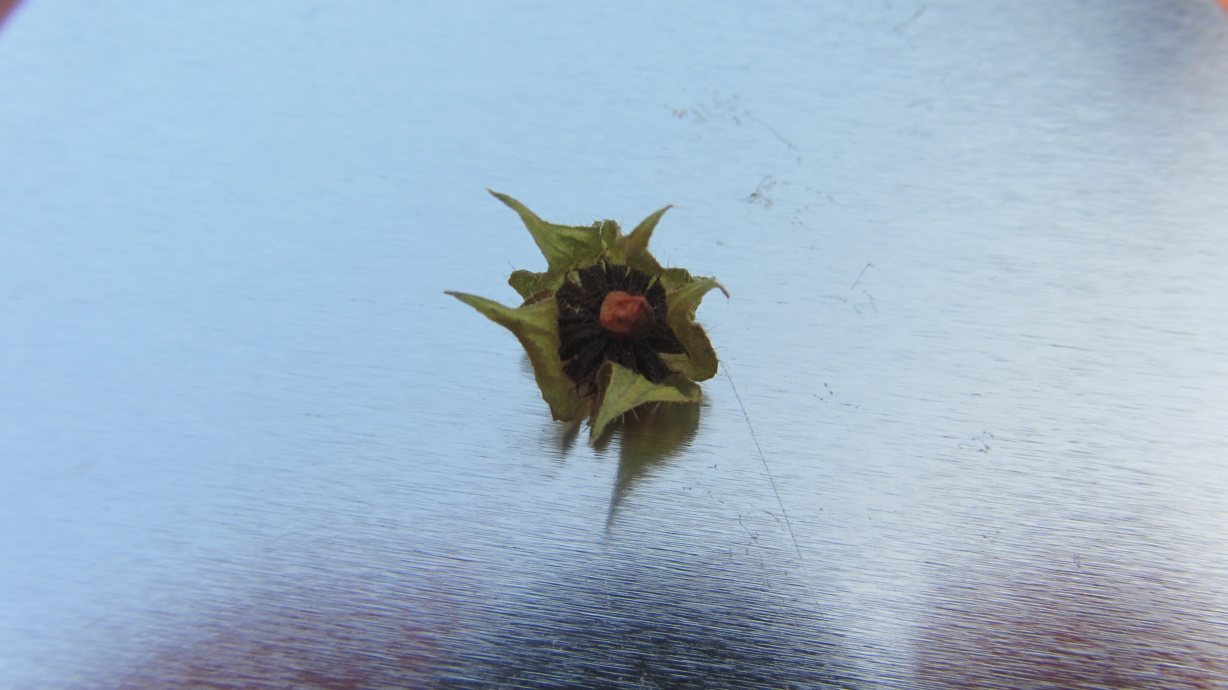 Turnera diffusa Seed vessel